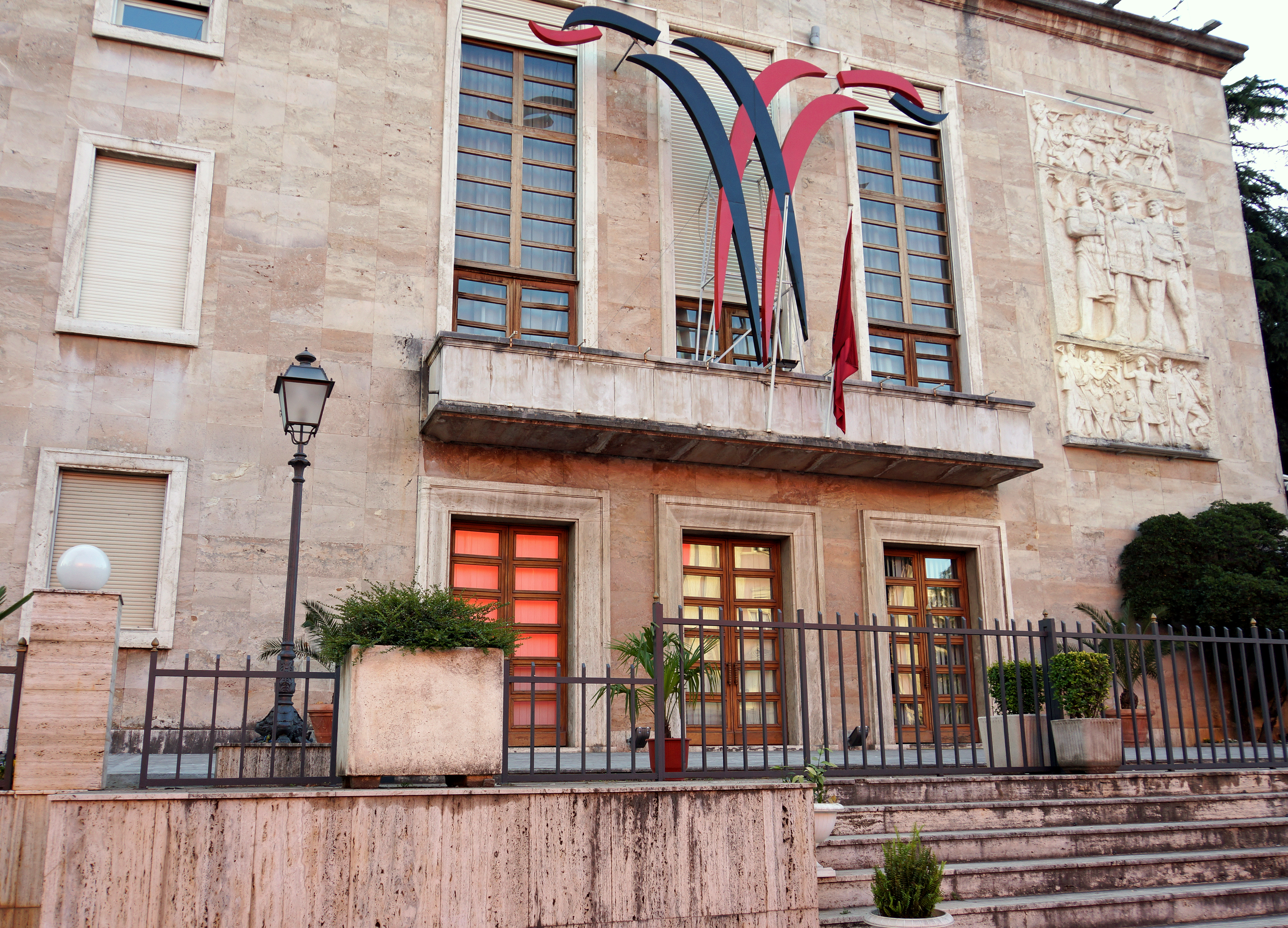 Council of Ministers in Tirana, Albania